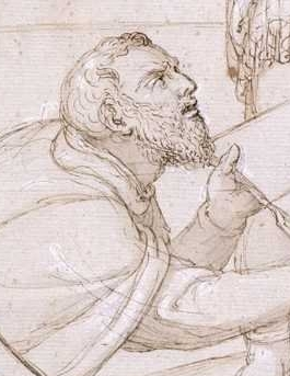 page 174 : the artist presenting his book to the "malitia temporis," the malice of the ages. Francisco de Holanda (1543–1573), Self-portrait